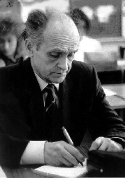 Victor Alekseyevich Vaziulin